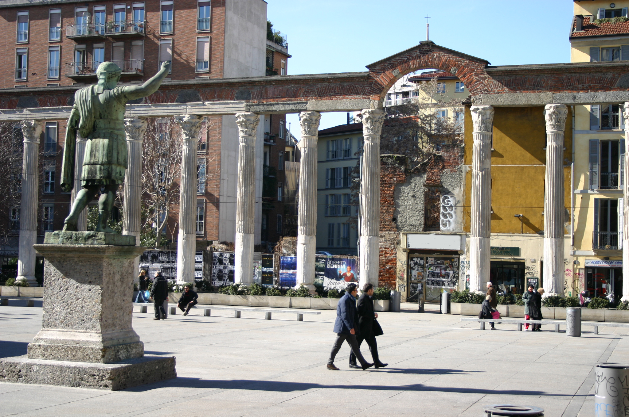 The Columns of San Lorenzo in Milan, Italy. Picture by Giovanni Dall'Orto, February 27 2007.